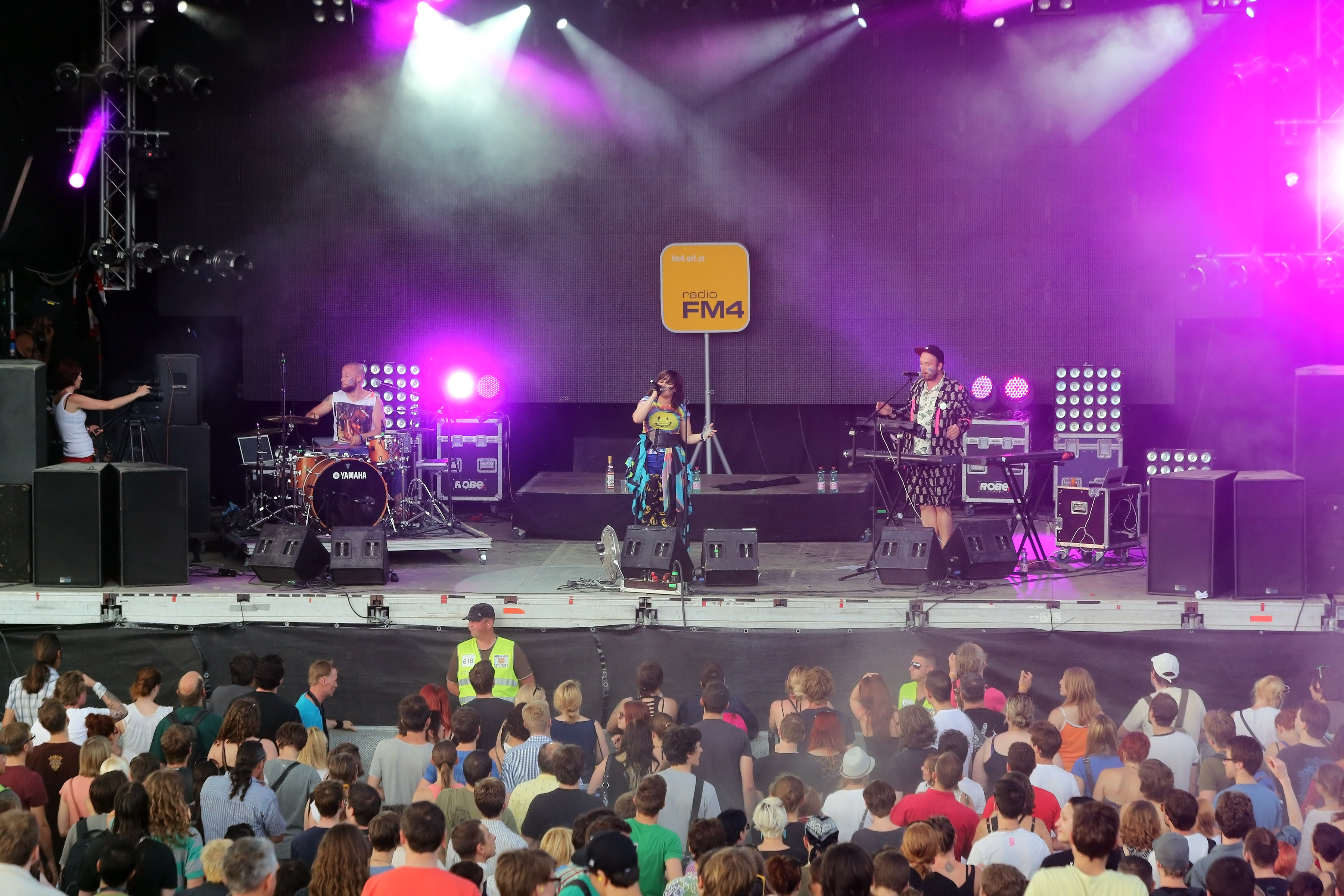 Grossstadtgeflüster - Donauinselfest 2013 in Vienna, Austria